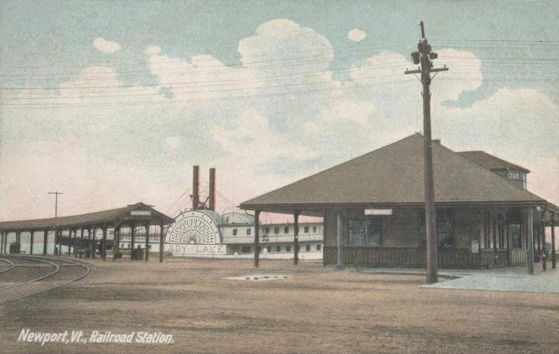 Railroad station and steamer Lady of the Lake, Newport, Vermont. [Lady Lake]